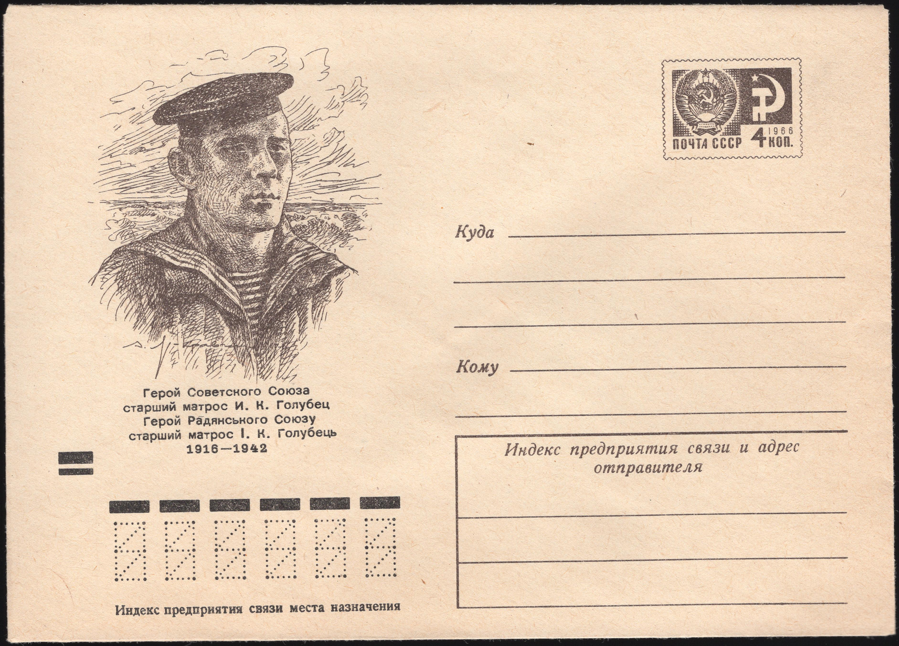 Hero of the Soviet Union able seaman Ivan Golubets. 1916-1942. Series: Heroes of the Soviet Union. Artist Anatoly Yar-Kravchenko.